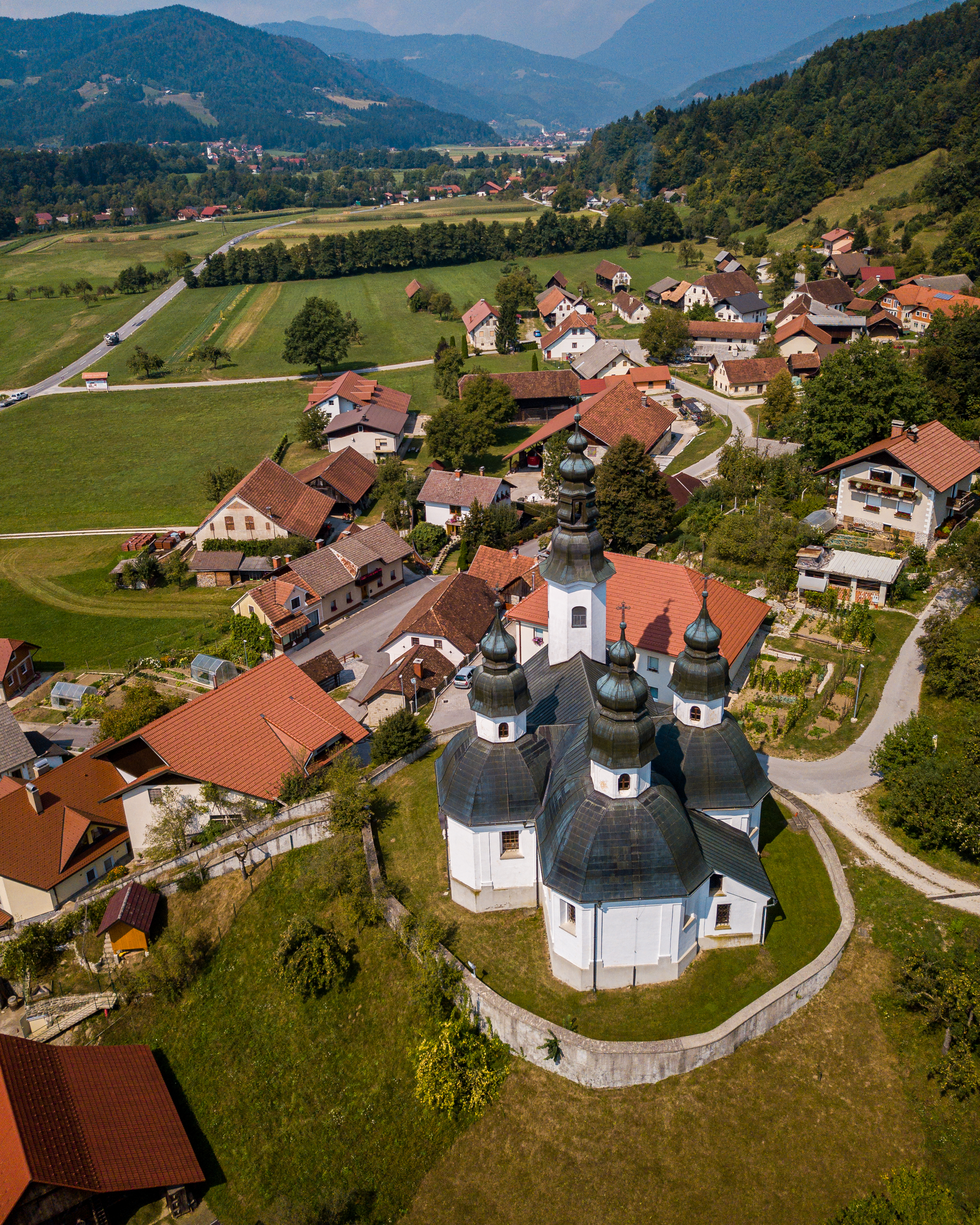 St. James Church, Okonina, SloveniaSlovenščina: Cerkev sv. Jakoba, Okonina, Slovenija Gradivo prikazuje objekt slovenske kulturne dediščine z EŠD-številko: 2975